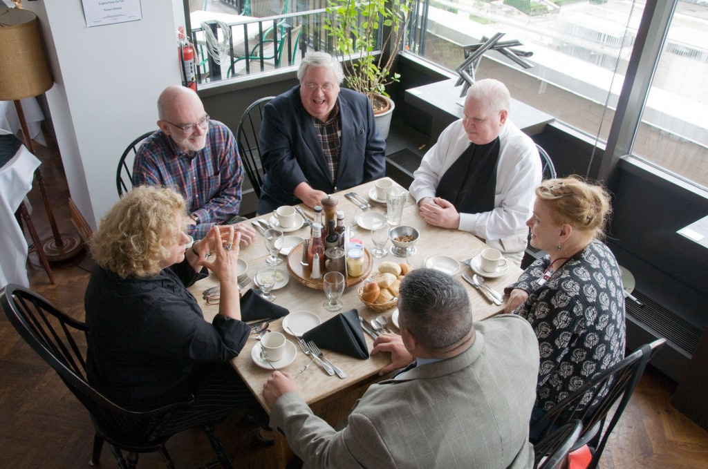 Photo of members table at the Cliff Dwellers